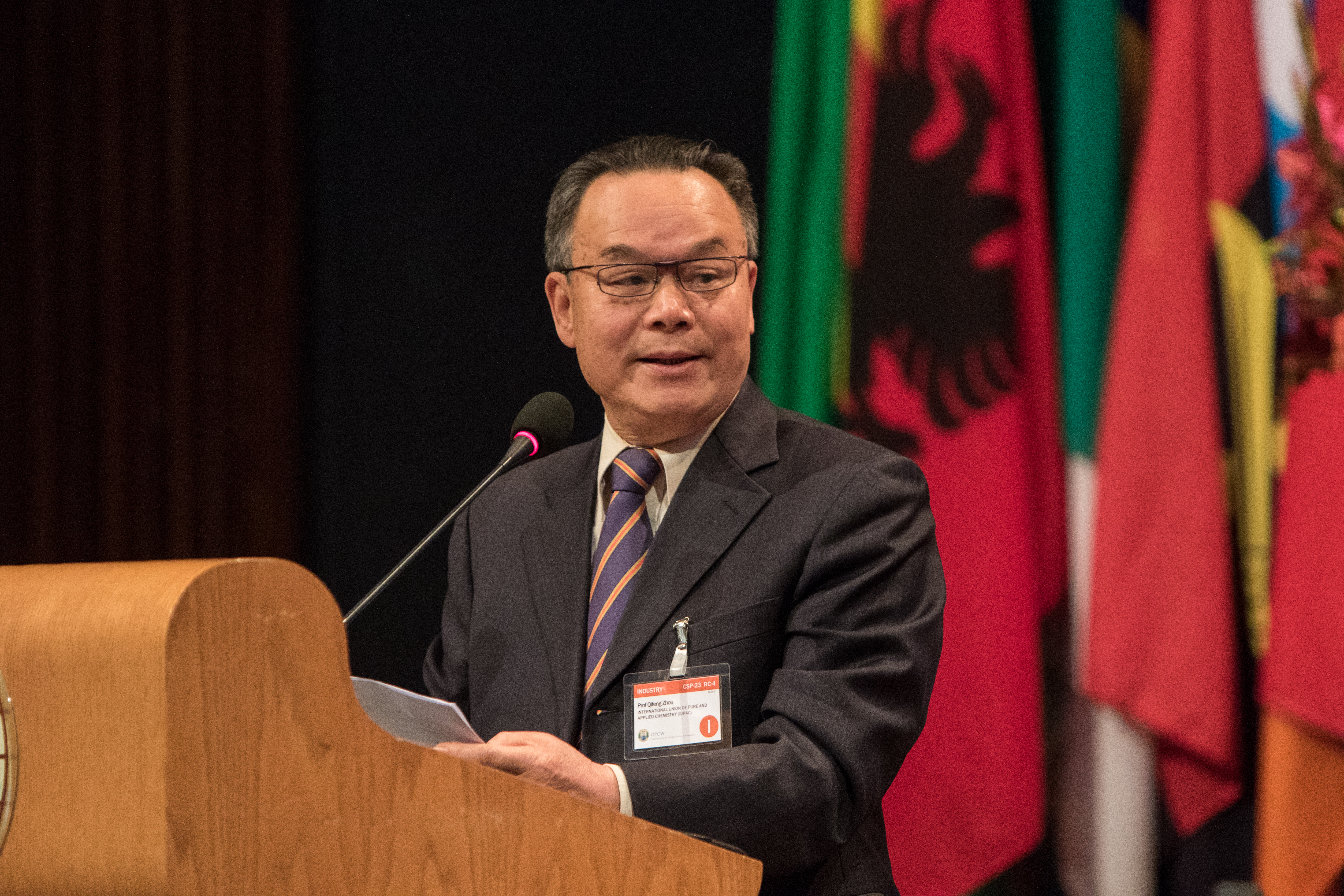 Professor Qifeng Zhou, Peking University, International Union of Pure and Applied Chemistry (IUPAC), speaking at OPCW's Fourth Review Conference. The Conference is held at the World Forum, The Hague, the Netherlands, from 21-30 November 2018.